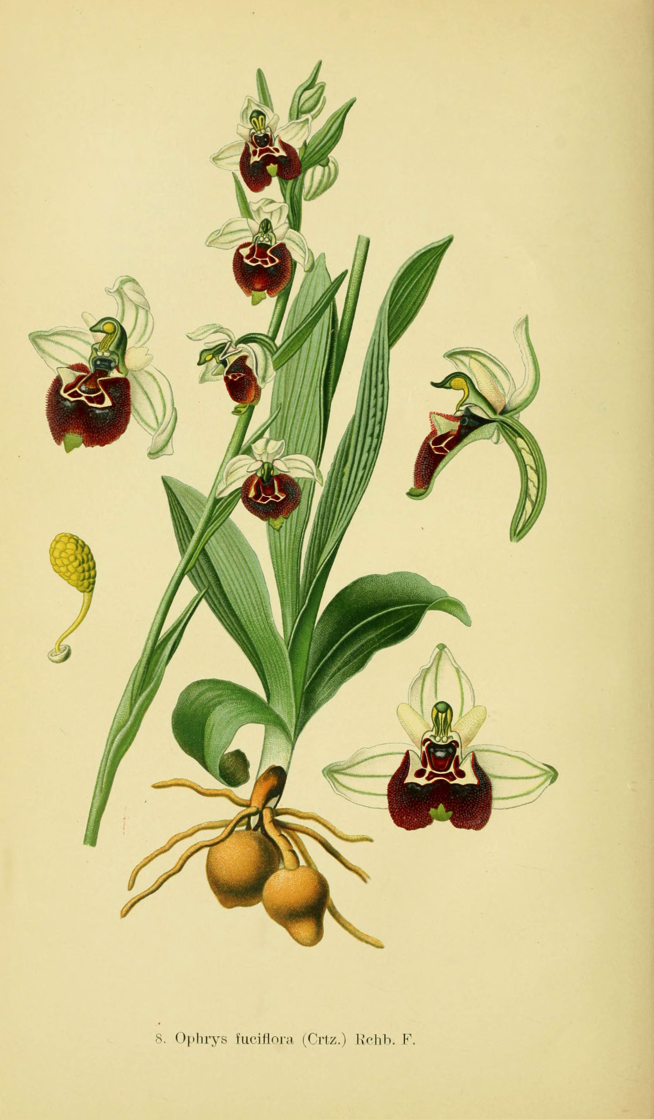 8. Ophrys hiciflora (Crtz.) Rchb. F